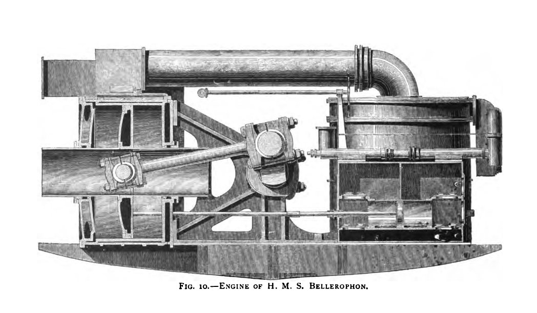 Cutaway view of the trunk engine of HMS Bellerophon (1865).